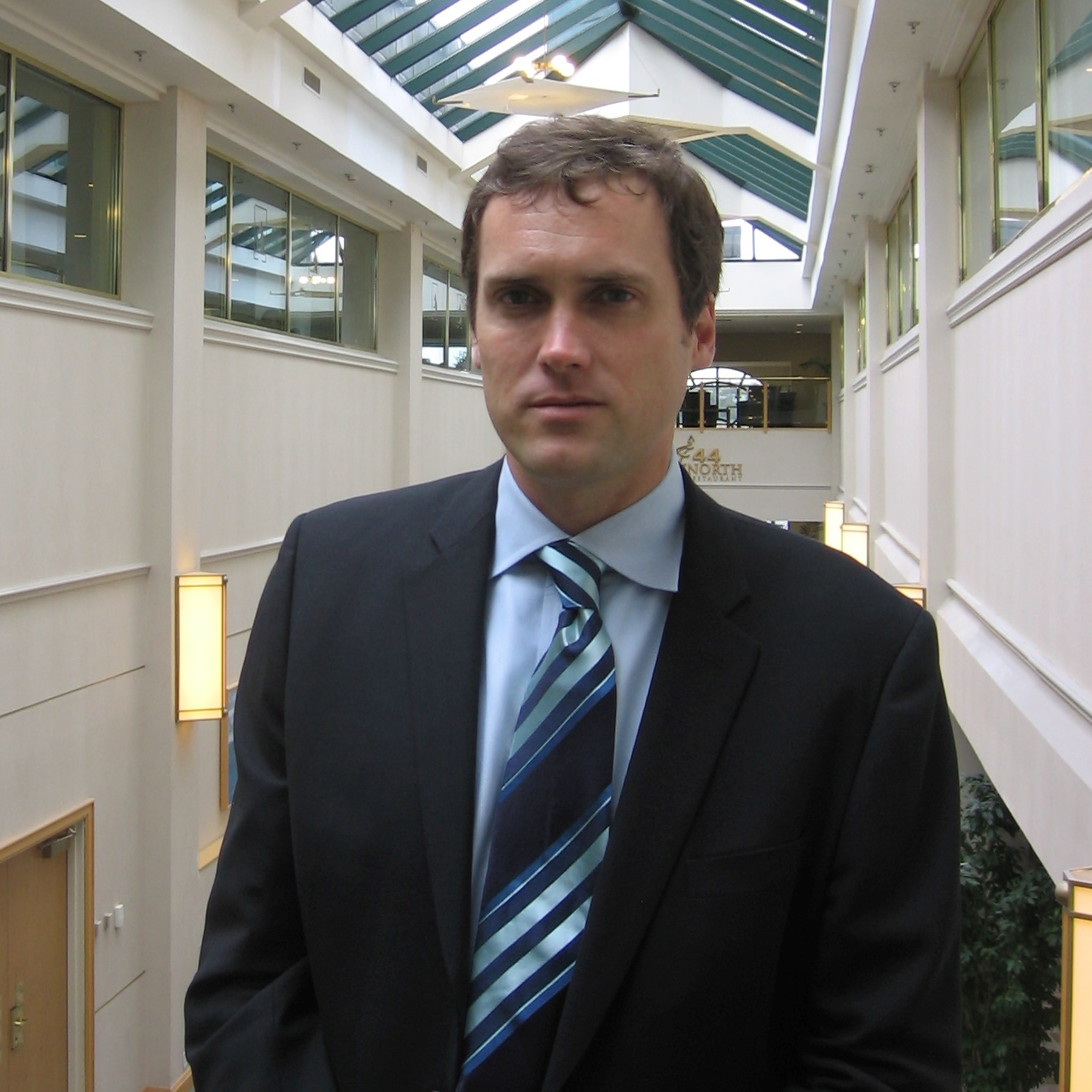 Portrait of author Tom Vanderbilt in Halifax, Nova Scotia. Picture made with subject's knowledge and permission.